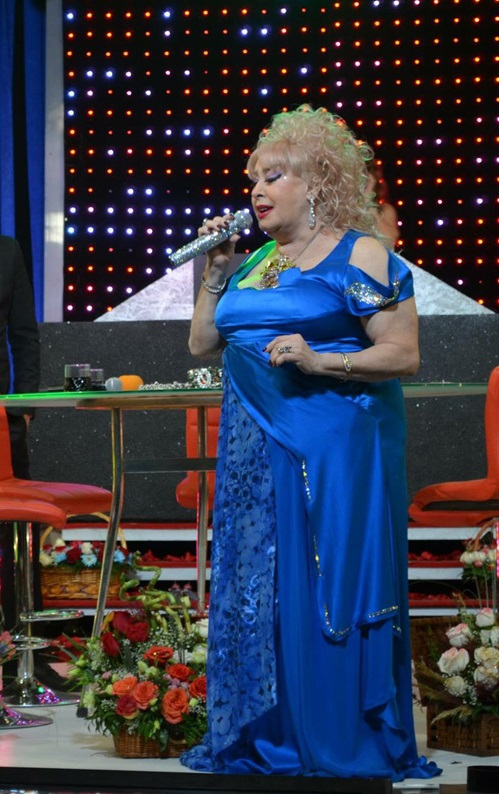 Ilhama Guliyeva sings at the Tv Show "A-dan Z-yə". Showman - Zaur. ANS Tv channel studio.